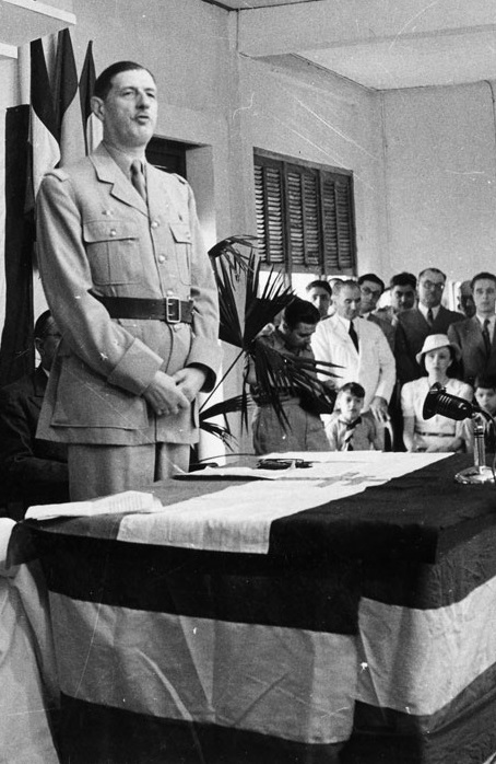 General de Gaulle giving a speech at the opening of the Brazzaville Conference 30 January 1944.